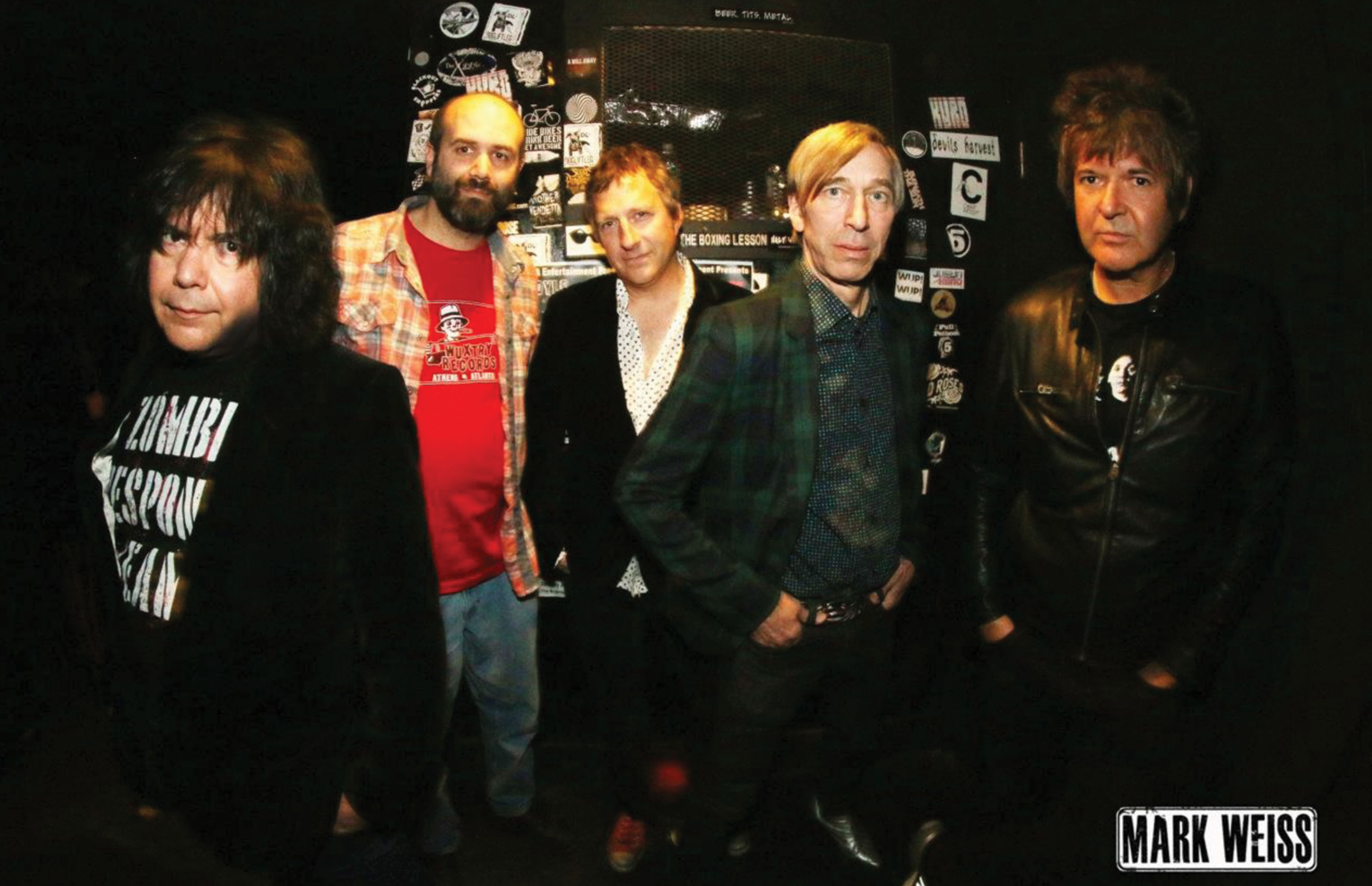 A photo of the rock band The Split Squad. From left to right, Eddie Munoz, Josh Kantor, Michael Giblin, Keith Streng, and Clem Burke